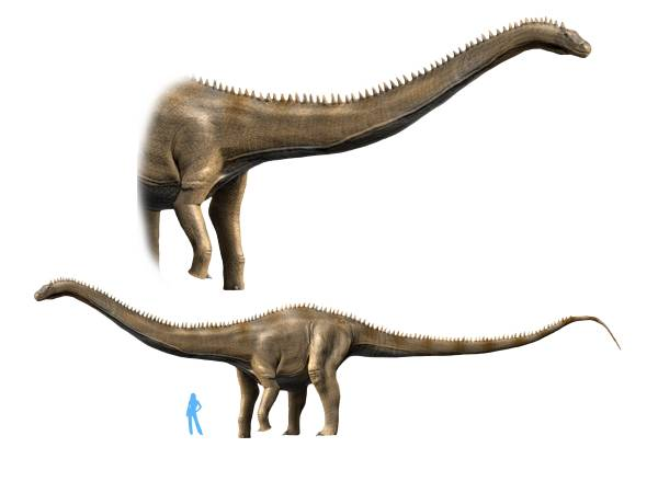 Life reconstruction of Supersaurus vivianae